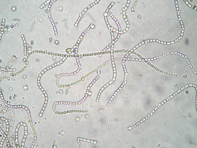 This work is free and may be used by anyone for any purpose. If you wish to use this content, you do not need to request permission as long as you follow any licensing requirements mentioned on this page.